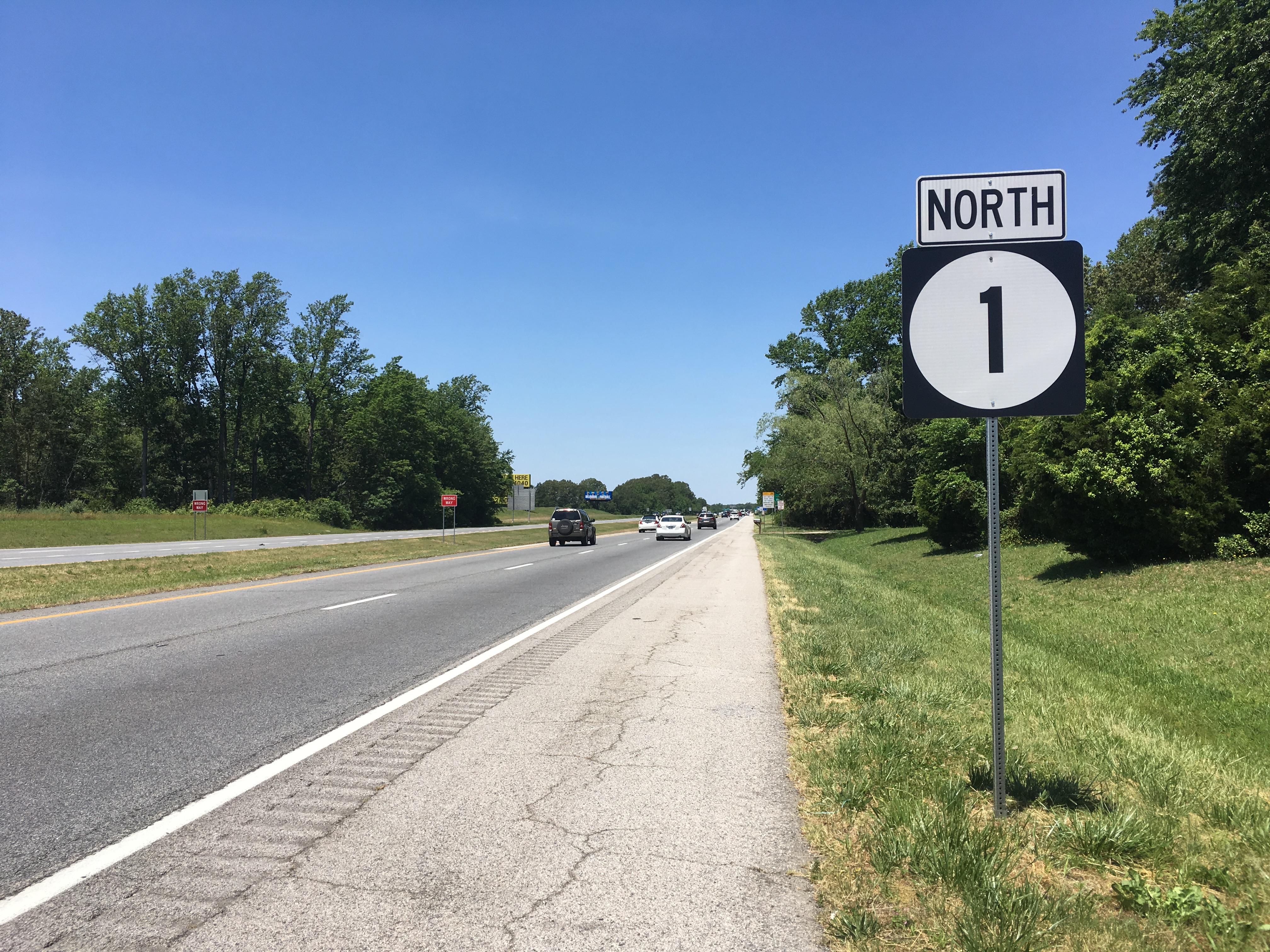 Northbound Delaware Route 1 (Bay Road) past the interchange with Frederica Road (exit 83) in Frederica, Delaware